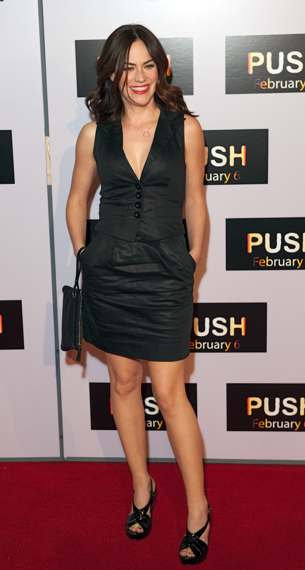 American actress Maggie Siff arrives at the premiere of Push, Mann Theater, Westwood.